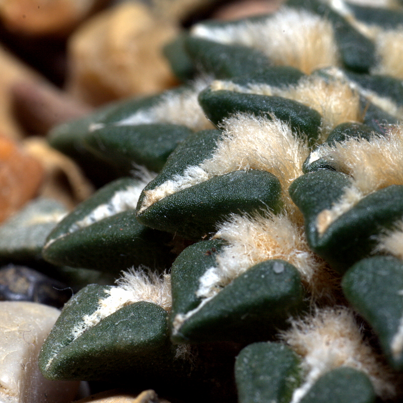 Ariocarpus kotschoubeyanus